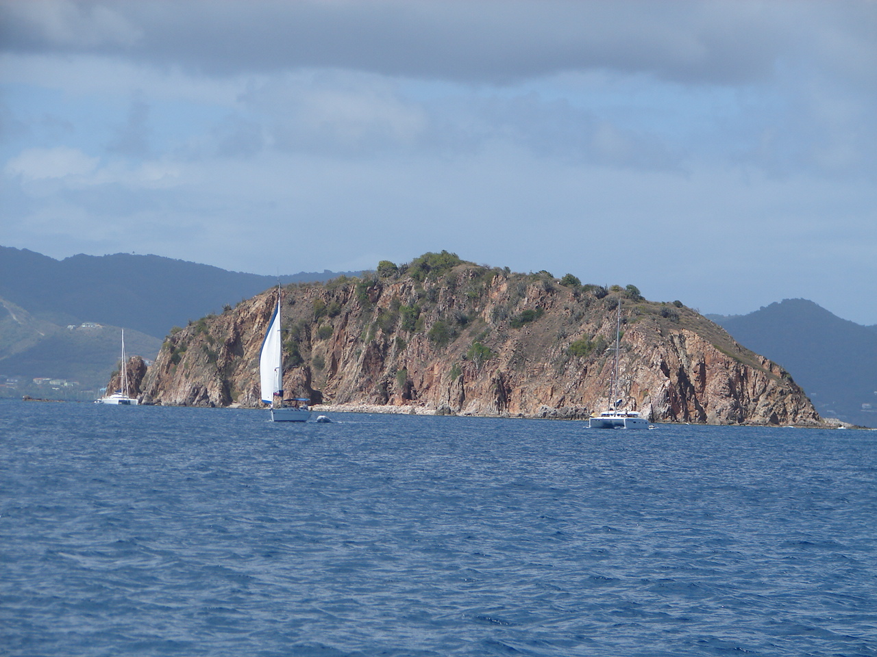 Photo of Pelican Island